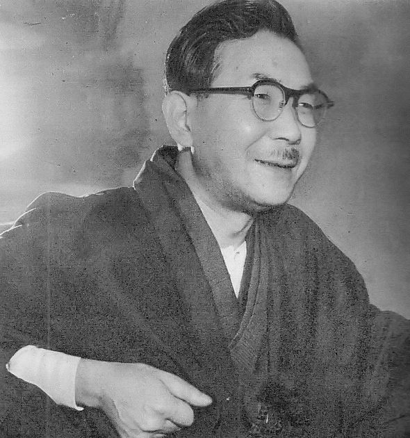 Takeo Miki